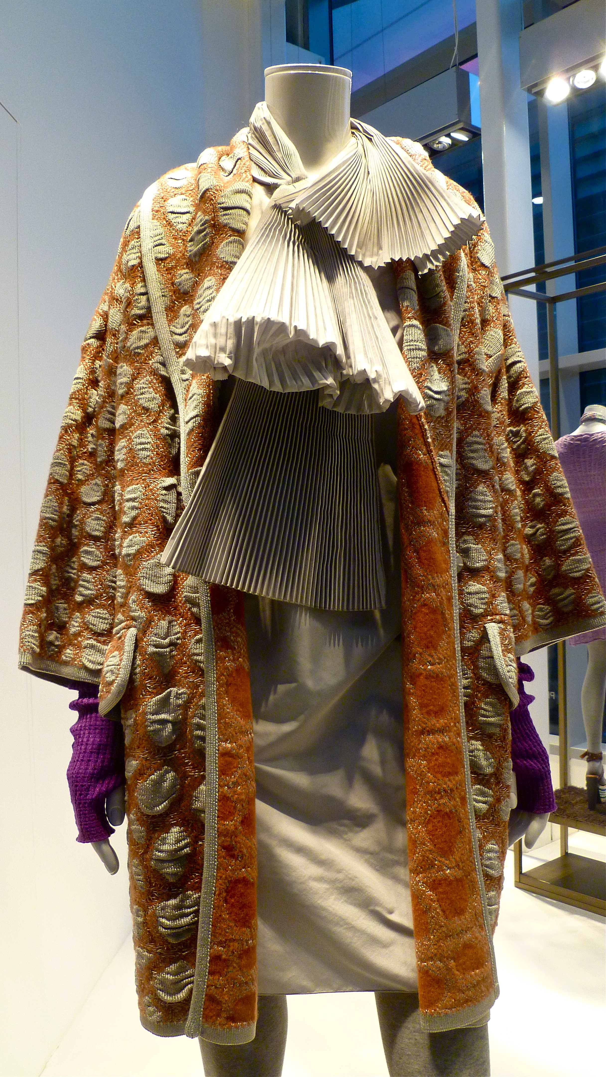 A coat by Italian fashion label Missoni, 2010